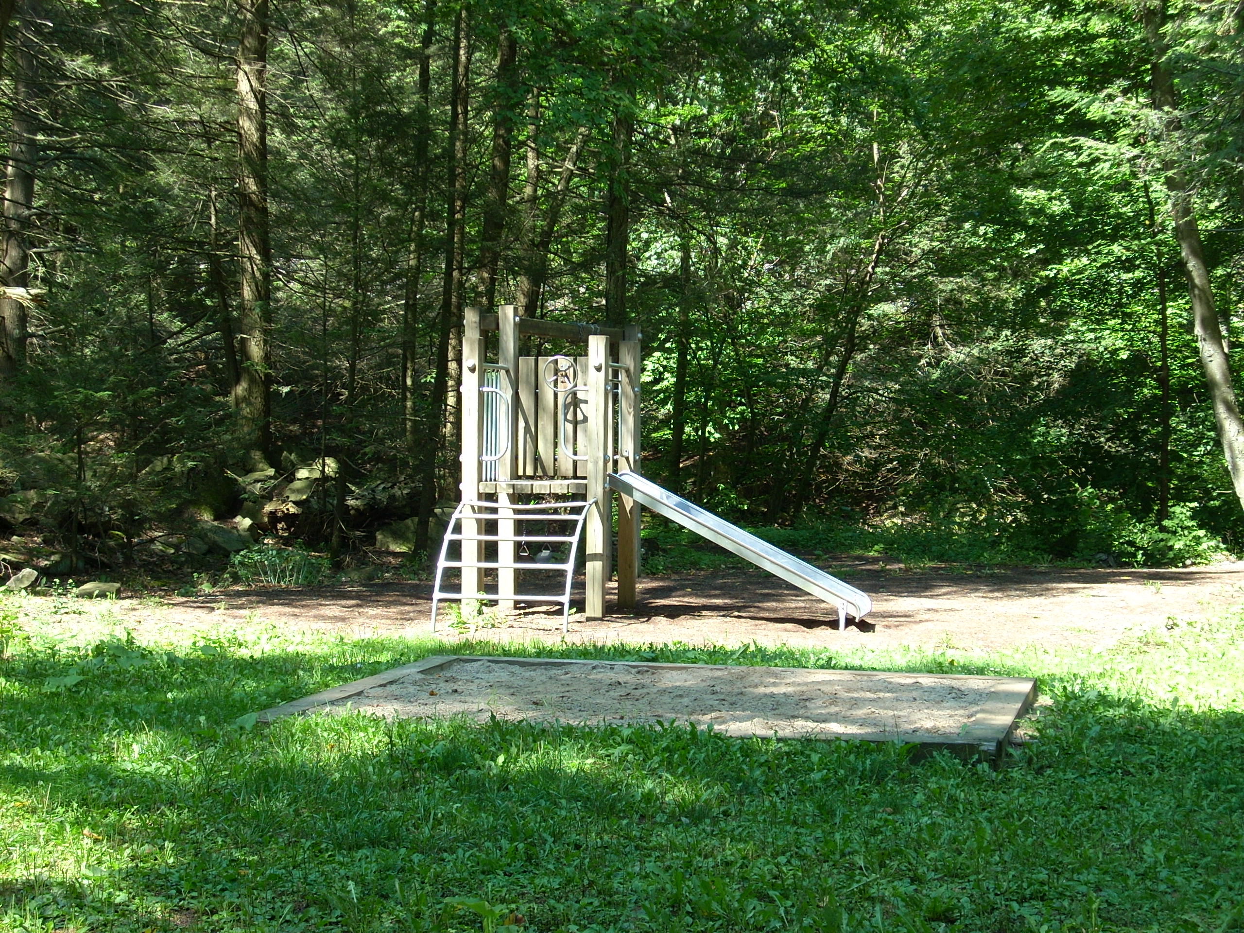 Playground at Ravensburg State Park, Clinton County, Pennsylvania, USA (within the Tiadaghton State Forest).